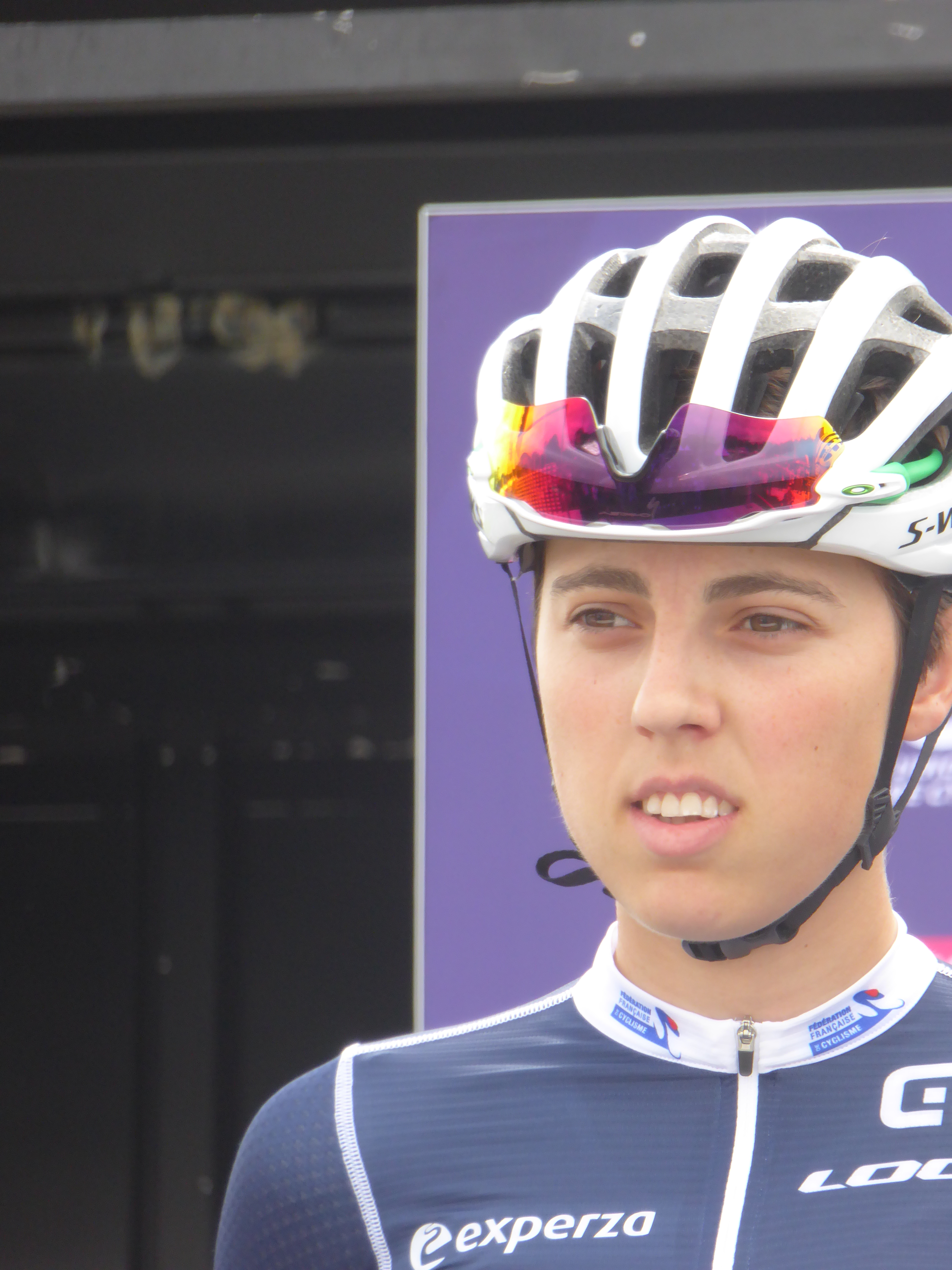 Séverine Eraud (France), prior to the women's road race at the 2018 UEC European Road Cycling Championships in Glasgow.